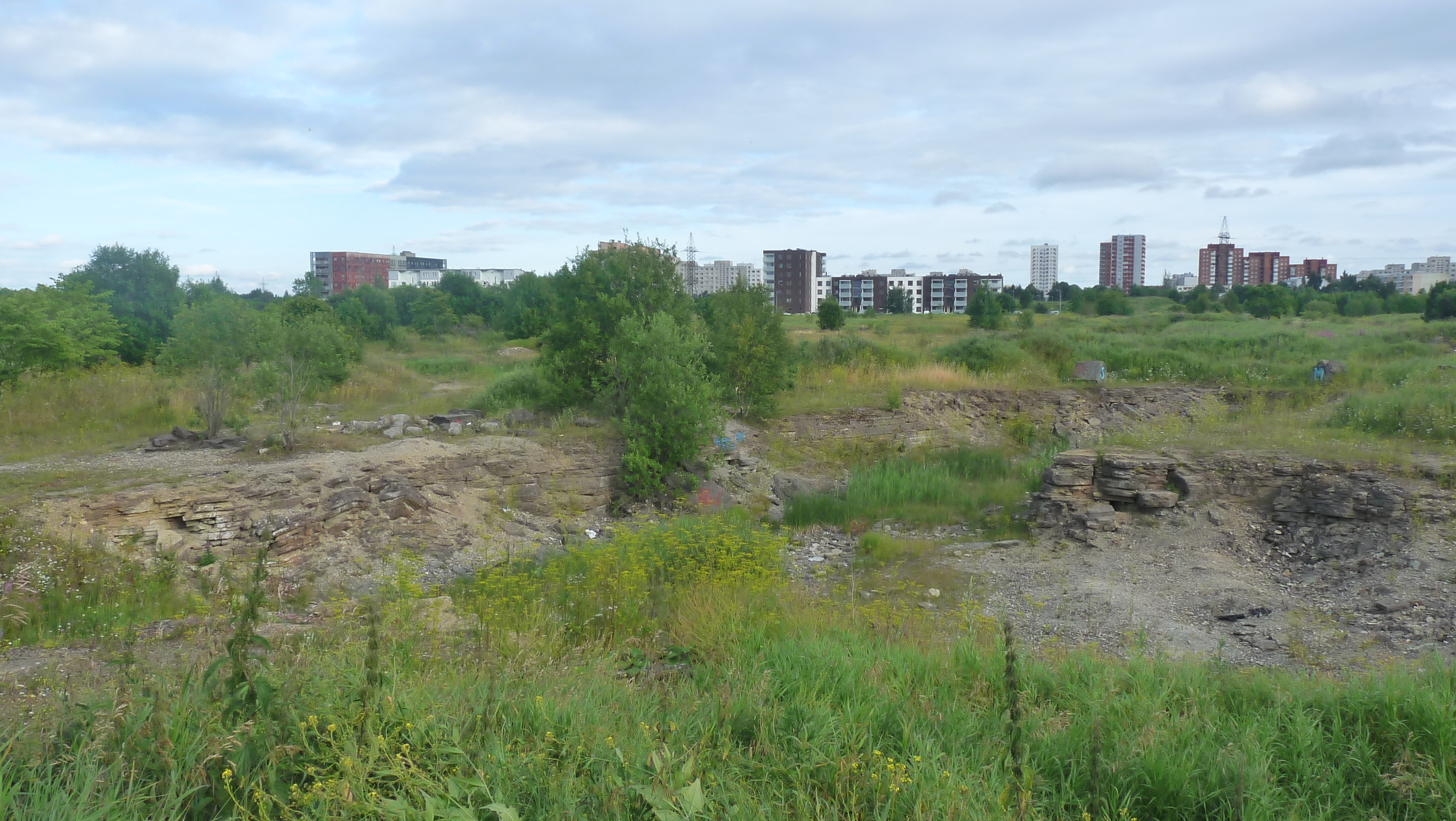 Deepening of Rahu prospekt, began from Loopealse quarter